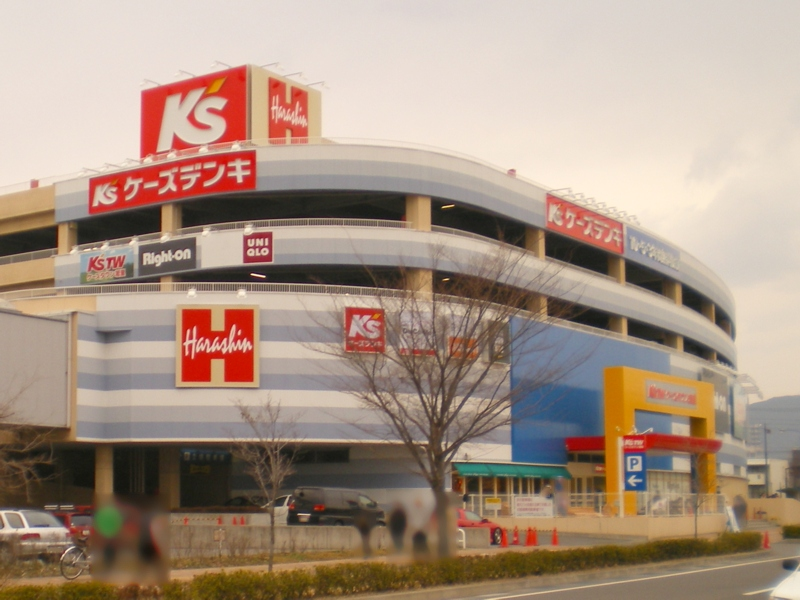 K's Town Wakasato Store (Nagano City, Nagano Prefecture, Japan)